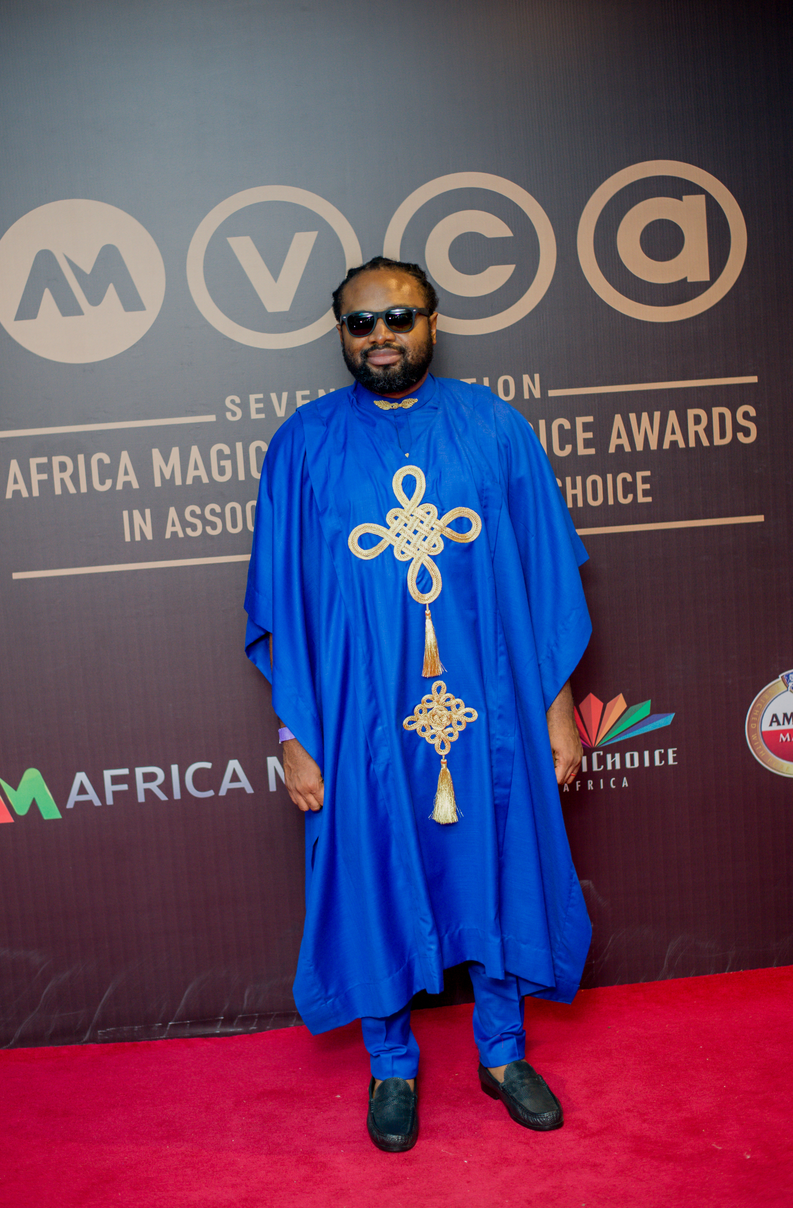 Cobhams Asuquo at AMVCA 2020